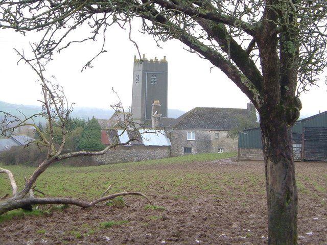 Woodland. View of the tiny village from the west, with Higher Woodland Farm and St John's church. It's been raining, hence the discolouration of the render on the west-facing wall of the tower.